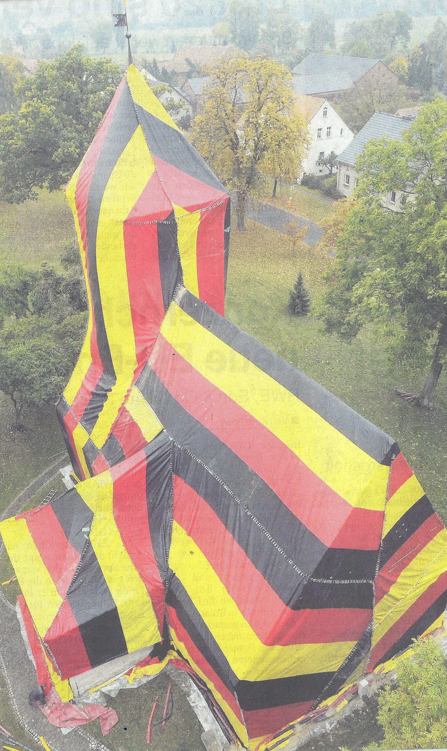 Awning of the Church in Börnicke (Nauen) in Brandenburg